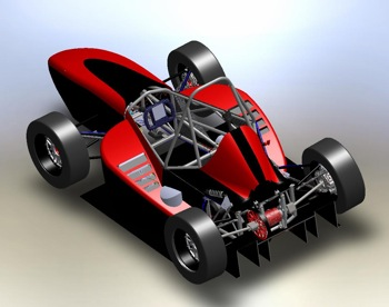 Solidworks Model of 2009 RFR Car. Rutgers Formula Racing.